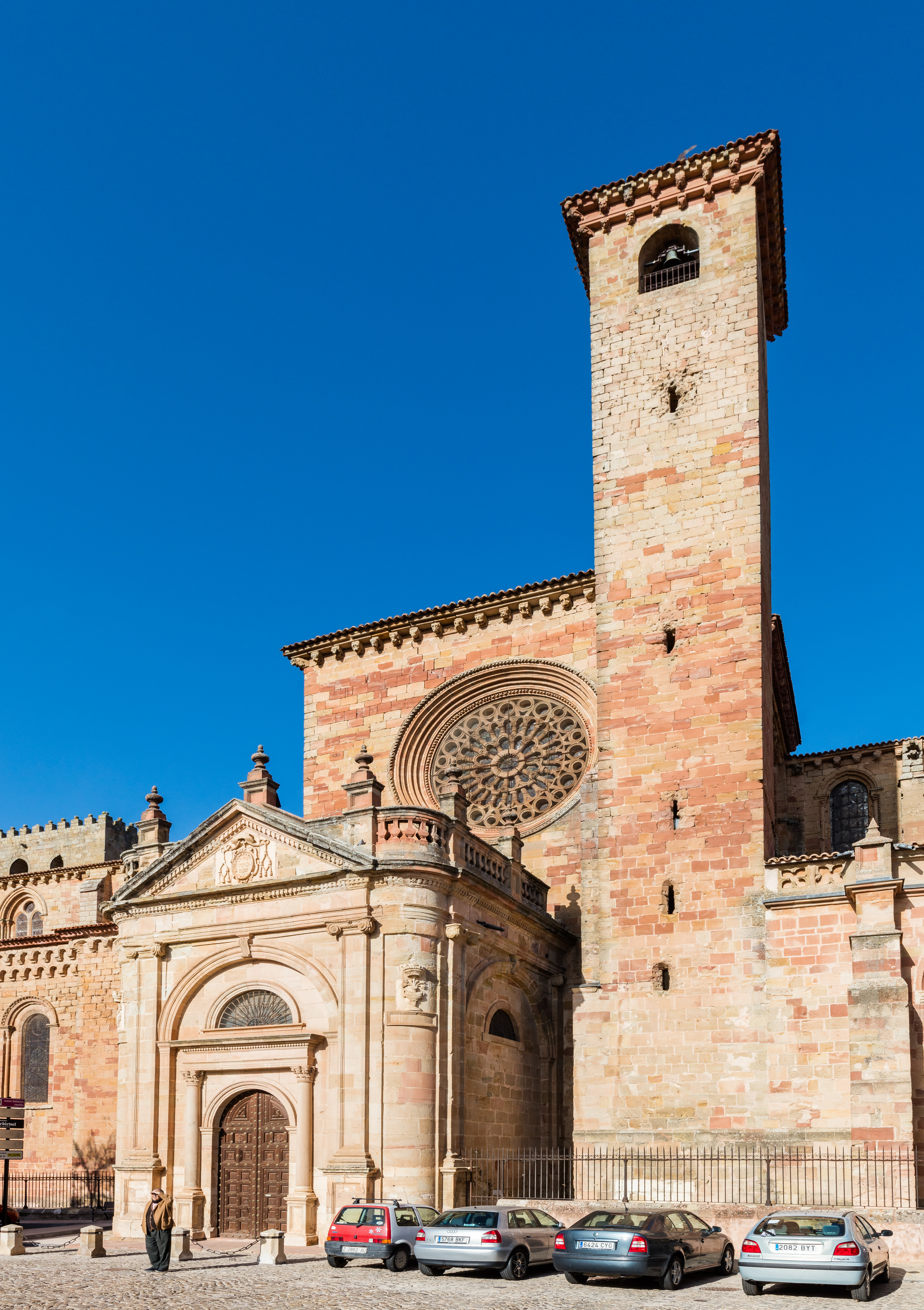 Cathedral of Santa María, Sigüenza, Spain